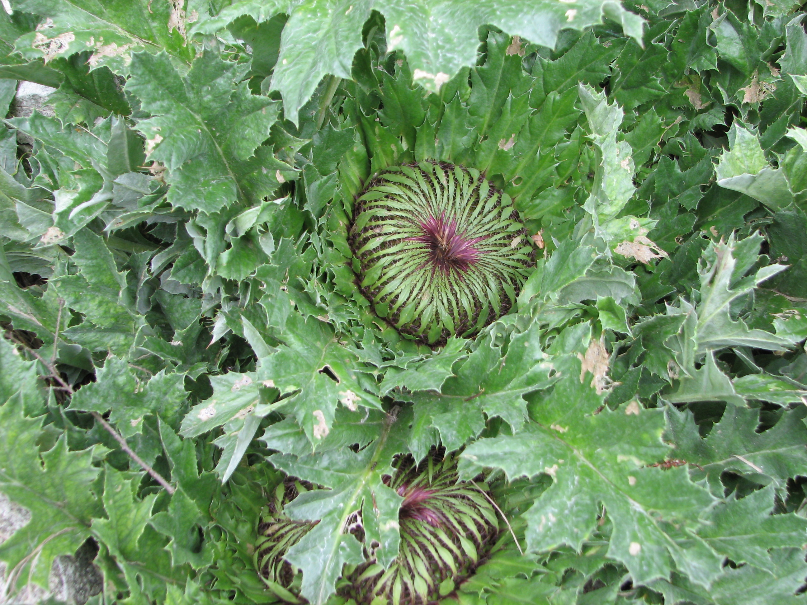 Carlina onopordifolia